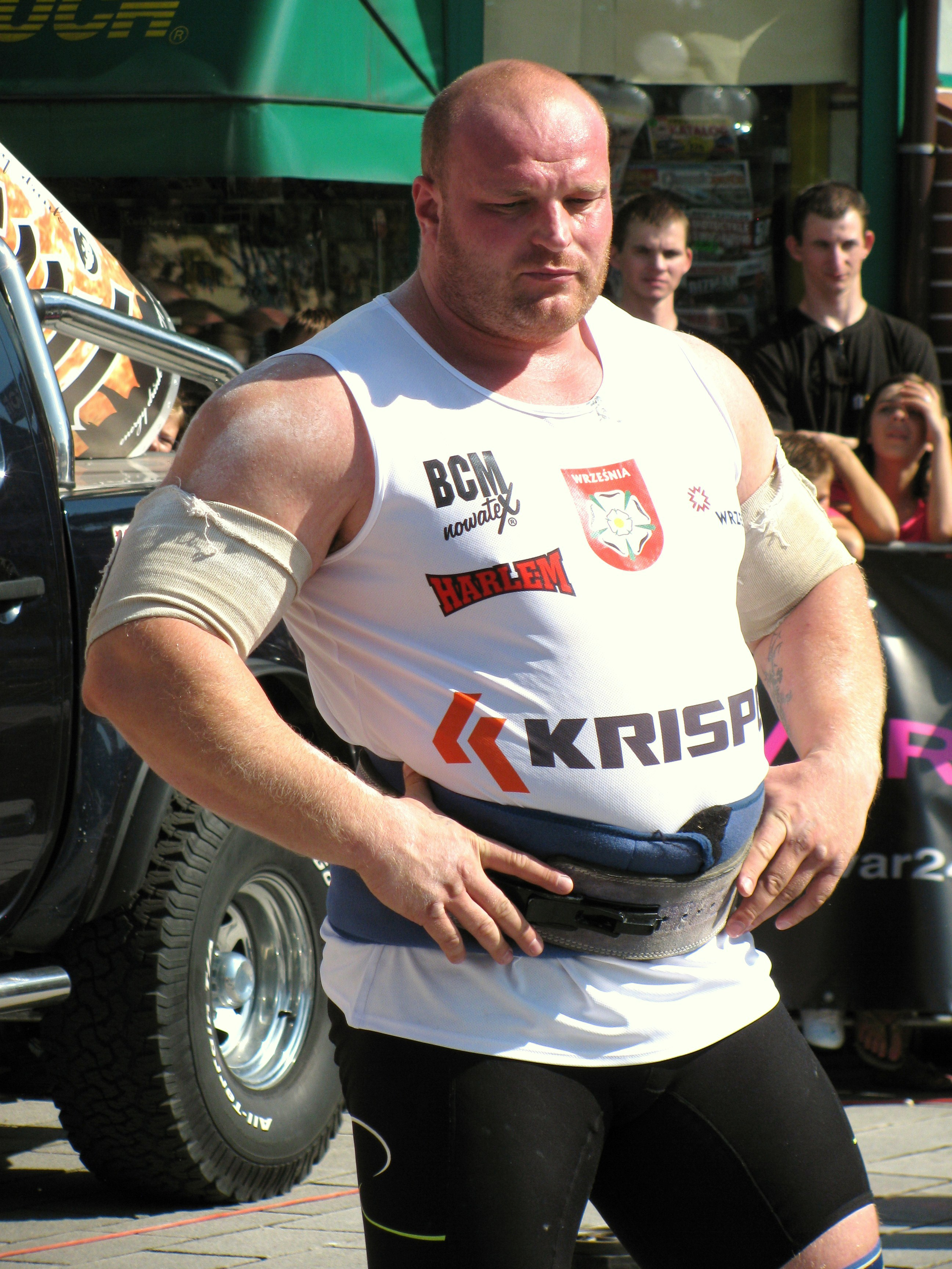 Jan Salata - a strength athlete from the Czech Republic.